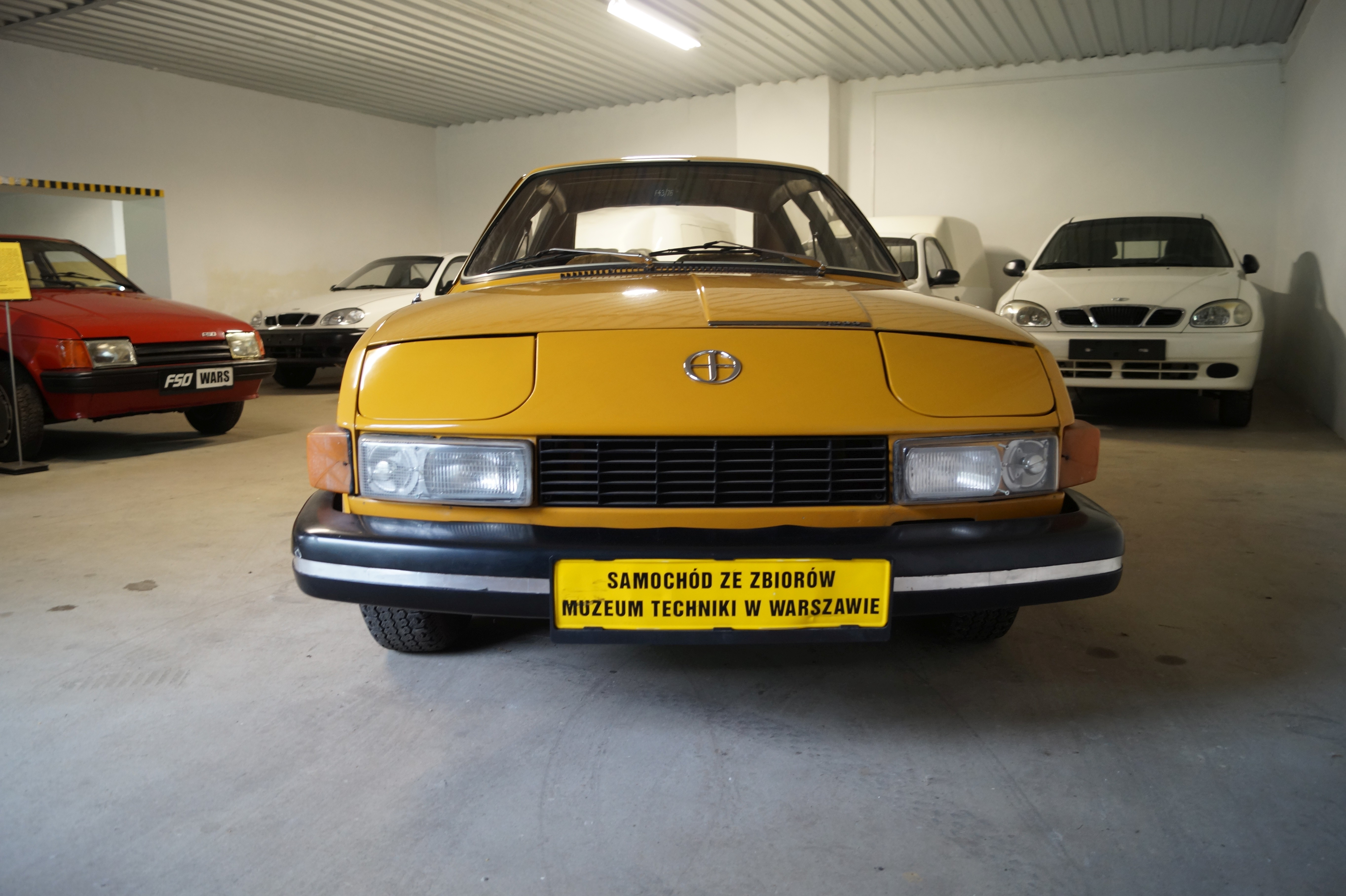 The making of this document was supported by Wikimedia Polska Association, within Wikigrant no. WG 2016-18. English | polski | +/− Przód FSO Ogara w Muzeum w Chlewiskach